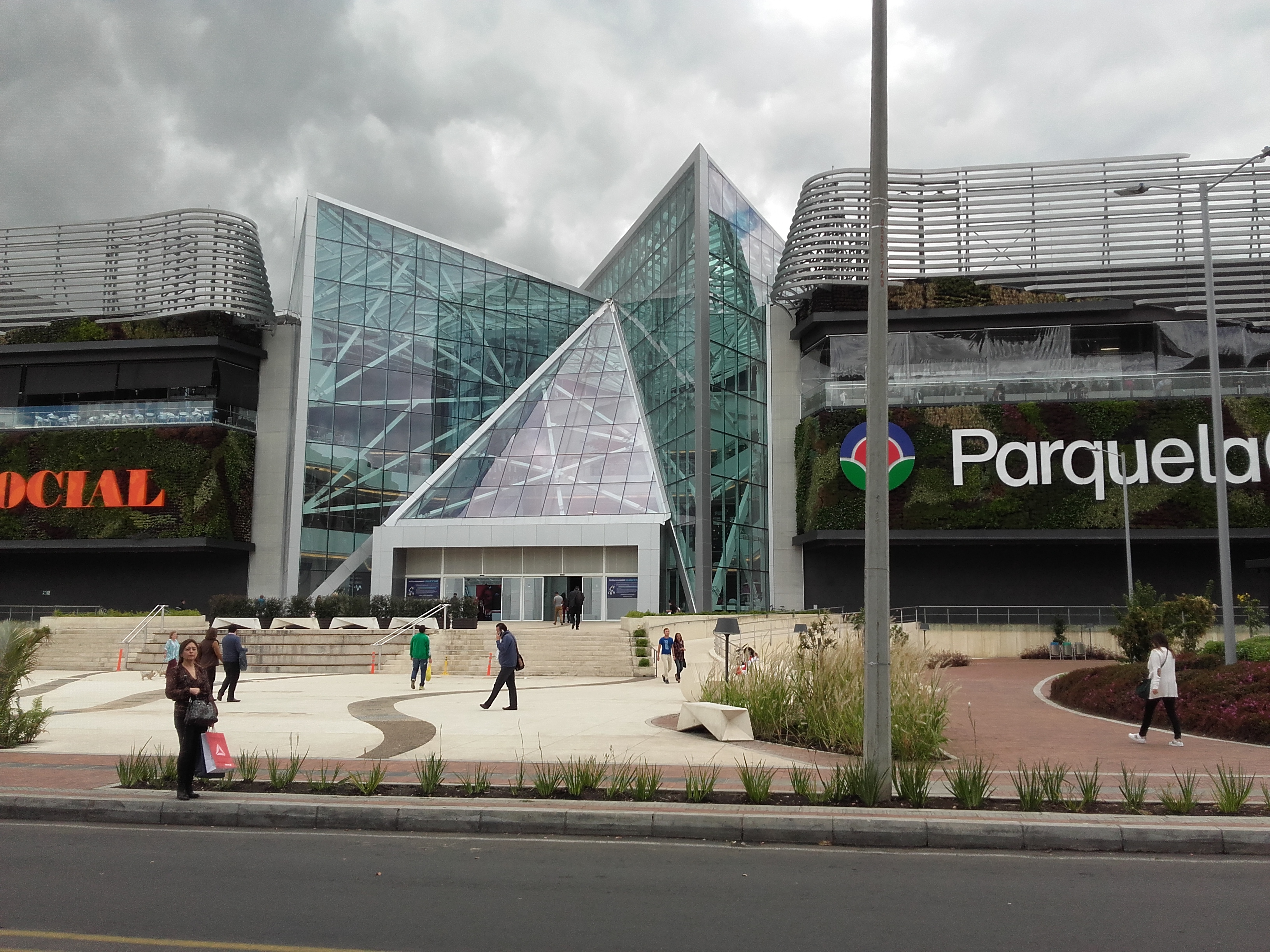 Parque La Colina mall